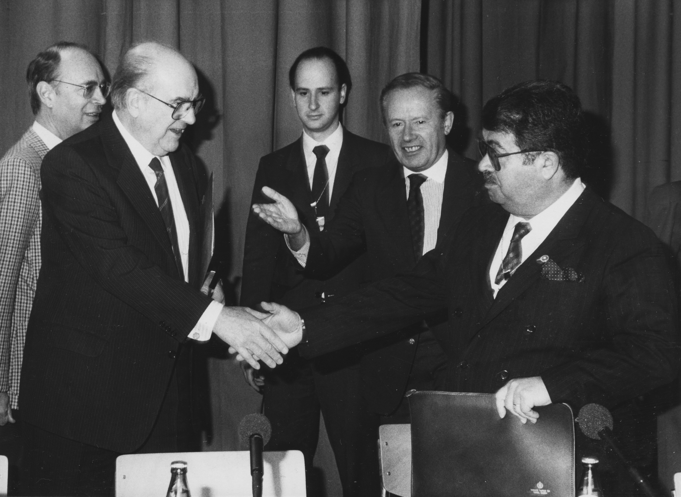 Davos Détente, a historic handshake between Prime Minister Andreas Papandreou of Greece and Prime Minister Turgut Özal of Turkey and Klaus Schwab (left) looking on at the European Management Symposium, the predecessor of the World Economic Forum in Davos in 1986.